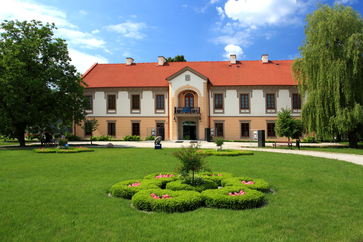 Regional Museum in Stalowa Wola